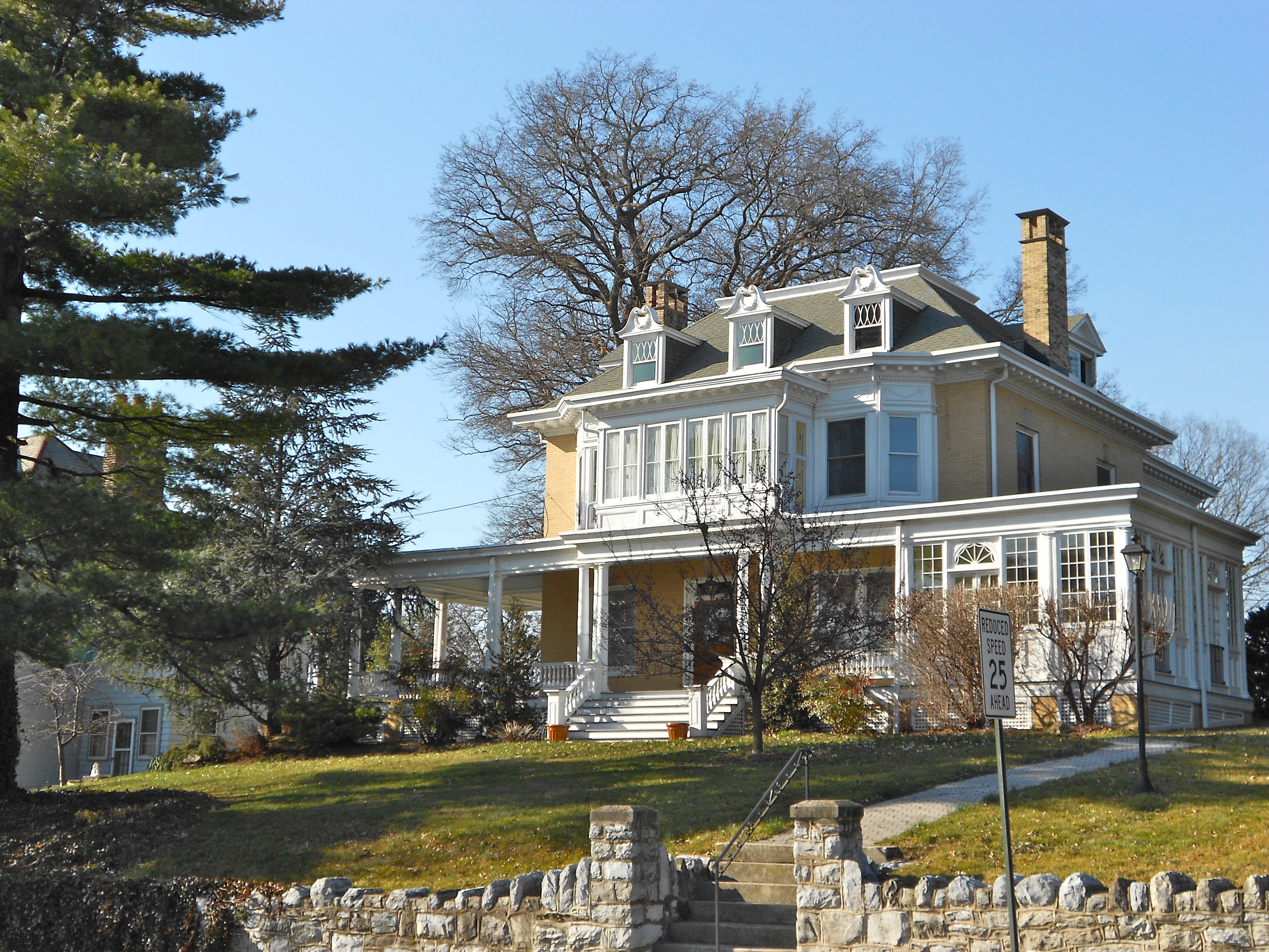 House in Marietta, PA a couple blocks SE of Bank Street on Market St. In the Chickies Historic District since December 28, 2005. The historic district is roughly bounded by the Susquehanna River, Chickies Creek, Bank Street and Long Lane, in several municipalities: East Donegal Township, West Hempfield Township, and Marietta, Lancaster County, Pennsylvania.